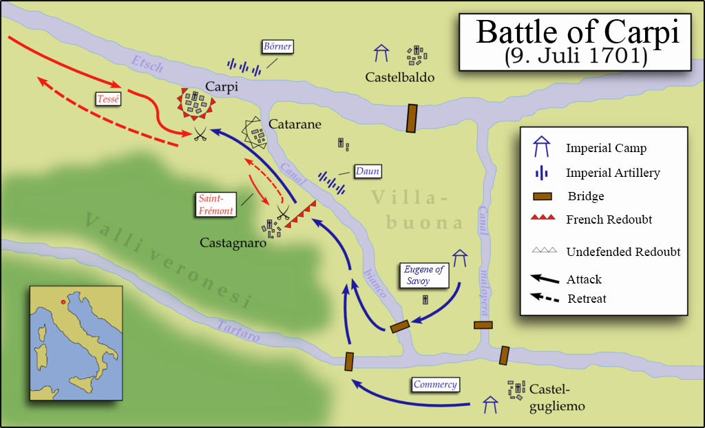 A translated version of a map showing the Battle of Carpi, July 9th, 1701 during the War of the Spanish Succession.